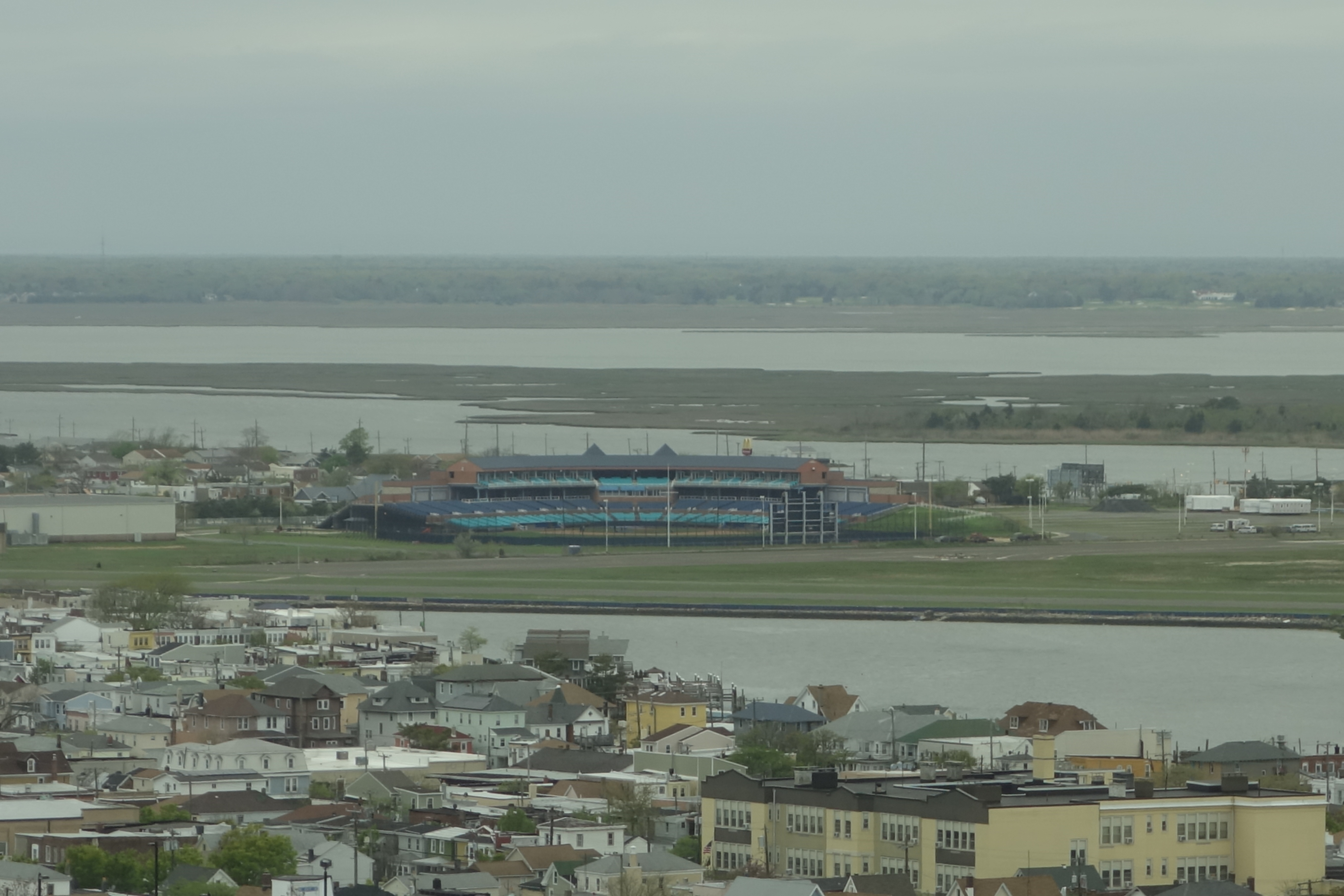 Looking northwest from the Bally's Tower of Bally's Atlantic City towards the Surf Stadium baseball stadium and Lakes Bay, looking from above Park Place / South Ohio Avenue and the Boardwalk in Atlantic City, New Jersey. The stadium is currently used by Atlantic Cape Community College, but was previously used by the independent Atlantic City Surf until 2009.